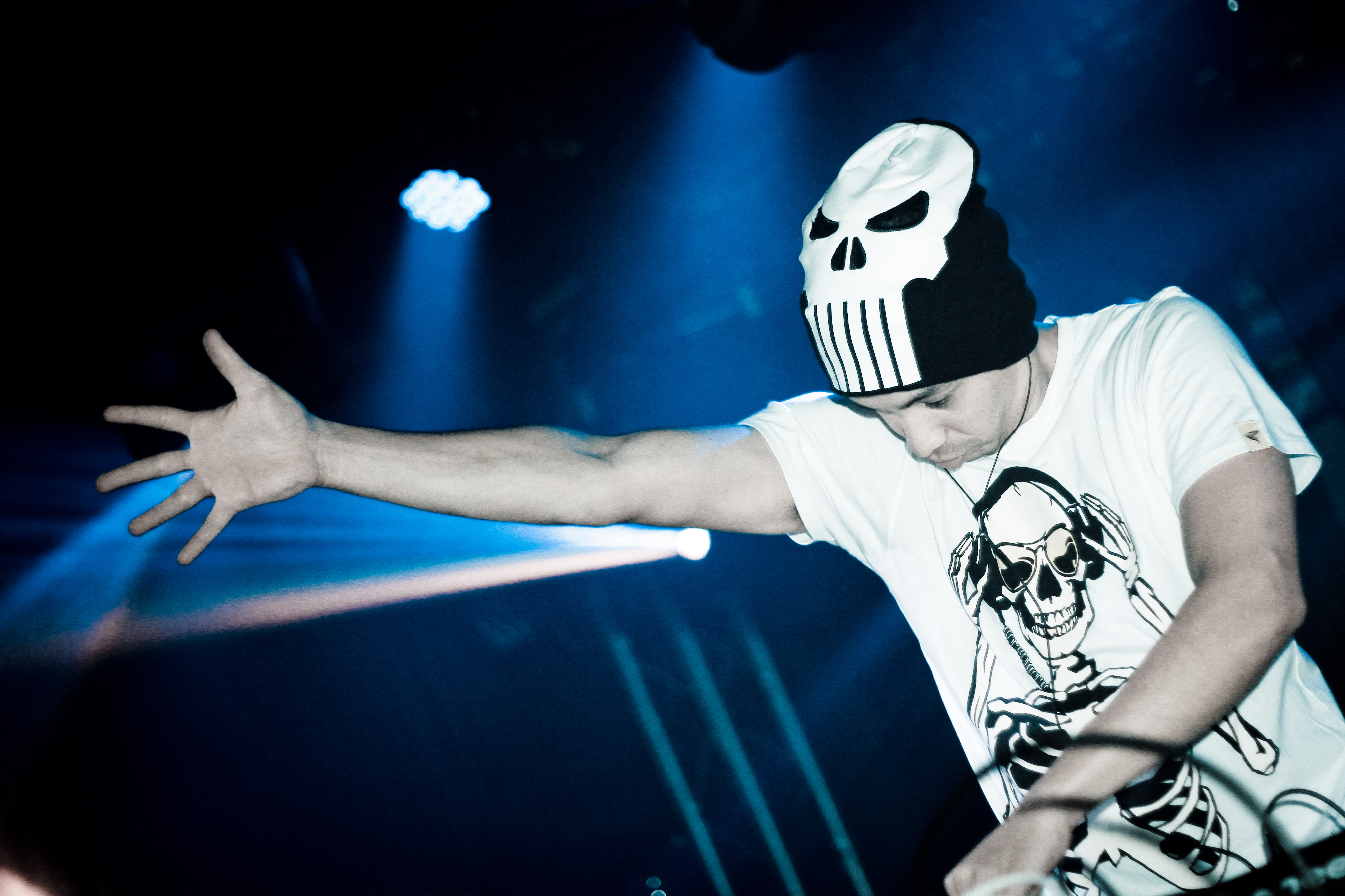 Laidback Luke live at Grindhouse 2011